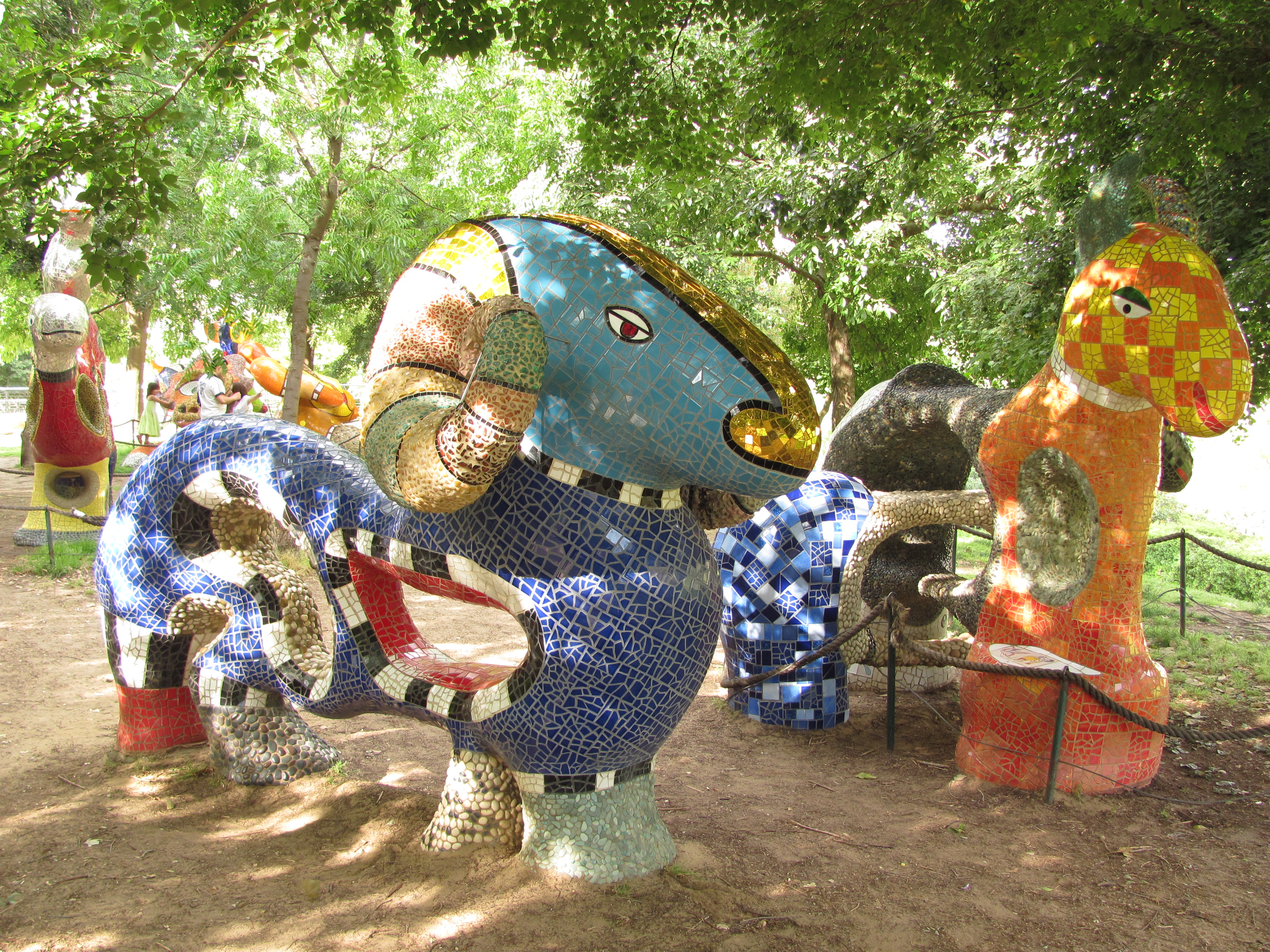 Phantasmagorical animal sculptures by French sculptor Niki de Saint Phalle in the Noah's Ark Sculpture Park at the Jerusalem Biblical Zoo.